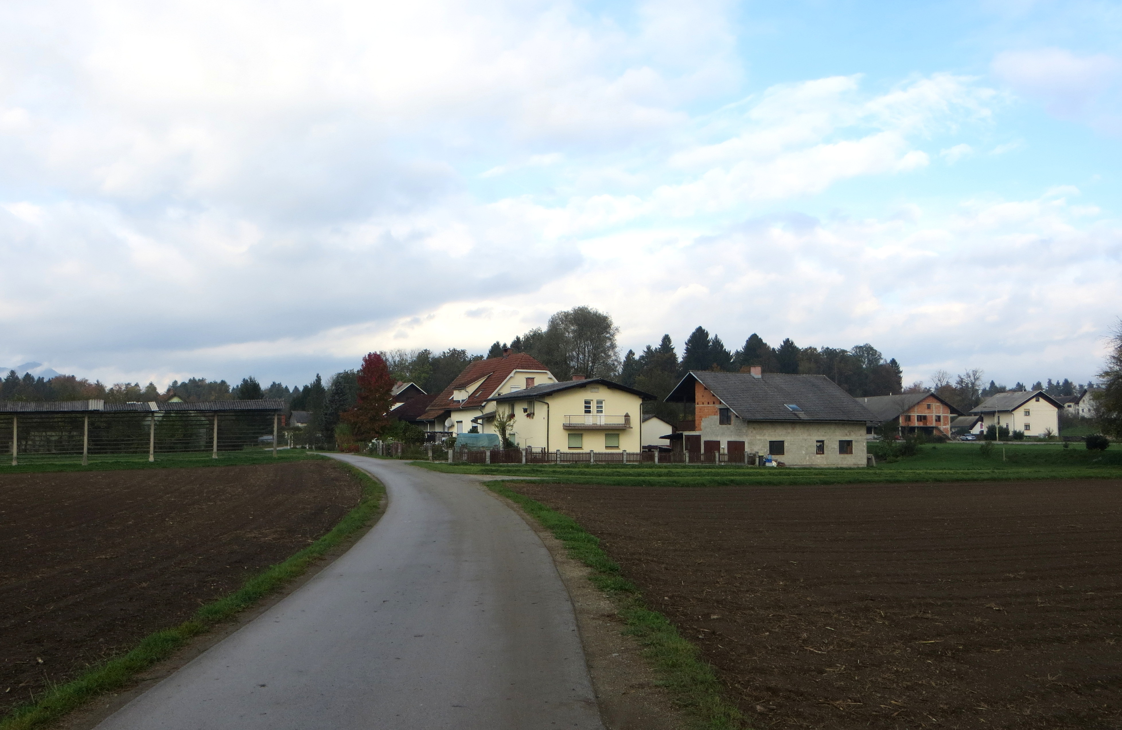 Gorenja Vas–Reteče, Municipality of Škofja Loka, Slovenia